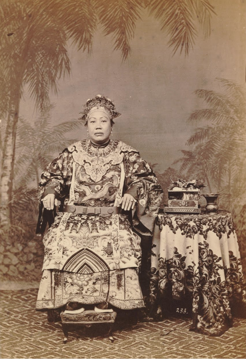 Photograph of Njonja Majoor-titulair Be Biauw Tjoan (née Tan Ndjiang Nio), Woodbury & Page, 1870 Аҧсшәа: Fotograf Njonja Majoor-titulair Be Biauw Tjoan (née Tan Ndjiang Nio), Woodbury & Page, 1870